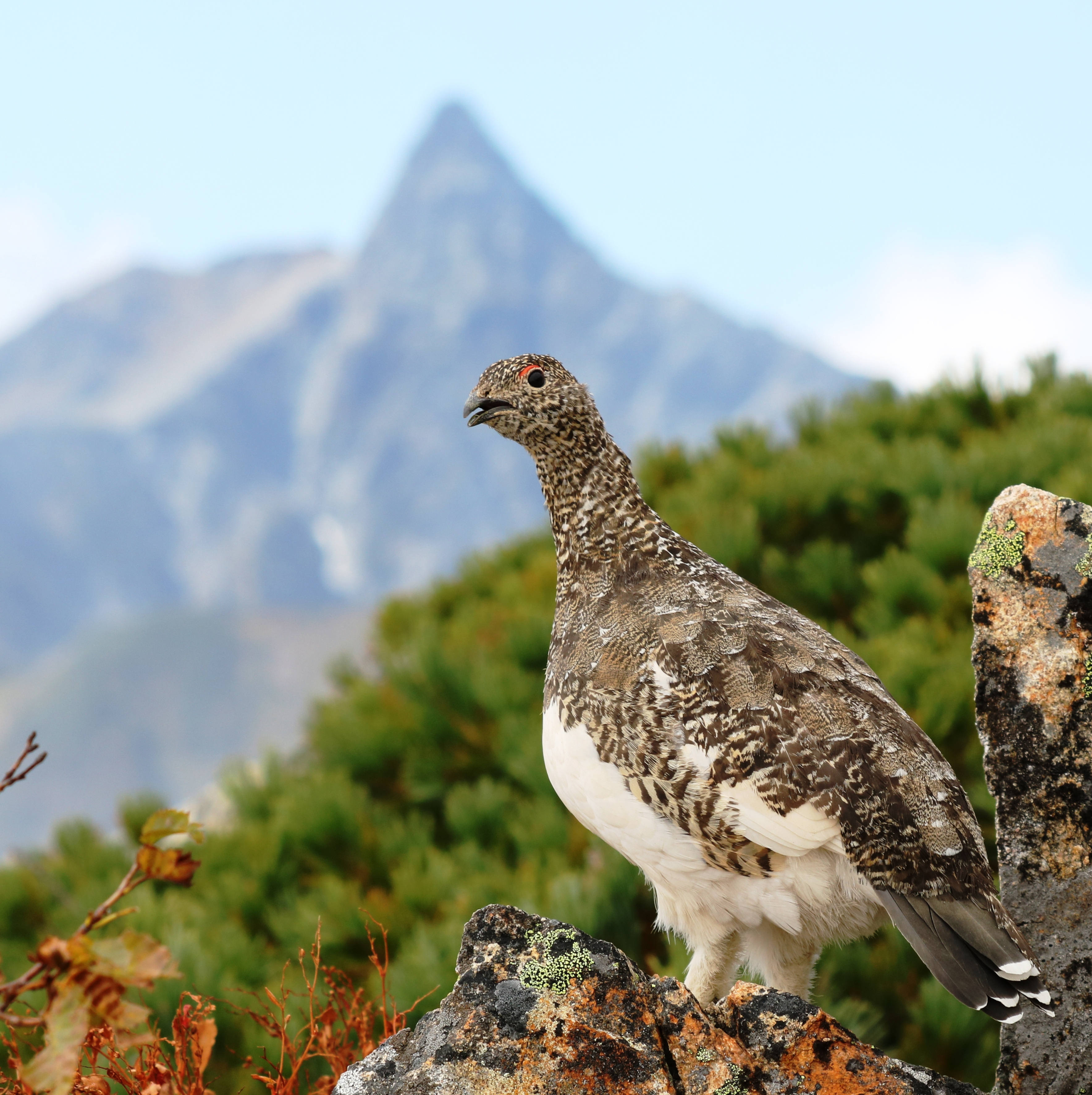 Lagopus muta japonica (female) and Mount Yari in Mount Yokotoshi, Hida Mountains, Azumino, Nagano Prefecture, Japan.